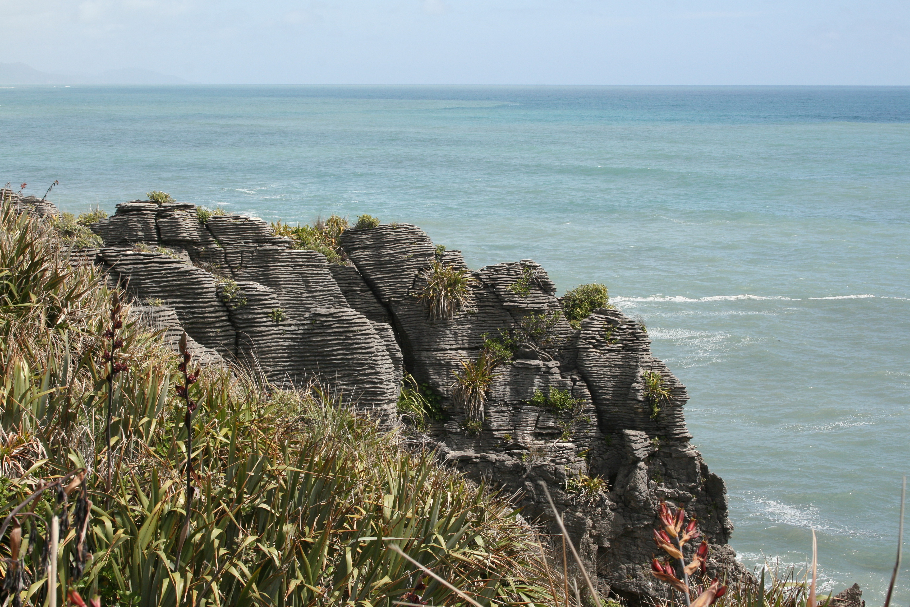 Pancake Rocks, New Zealand